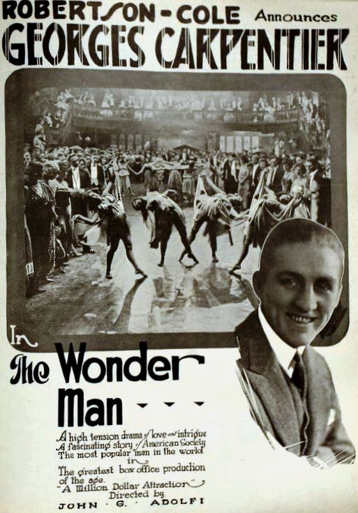 Ad for the American film The Wonder Man (1920) with Georges Carpentier, on page 4117 of the May 15, 1920 Motion Picture News.